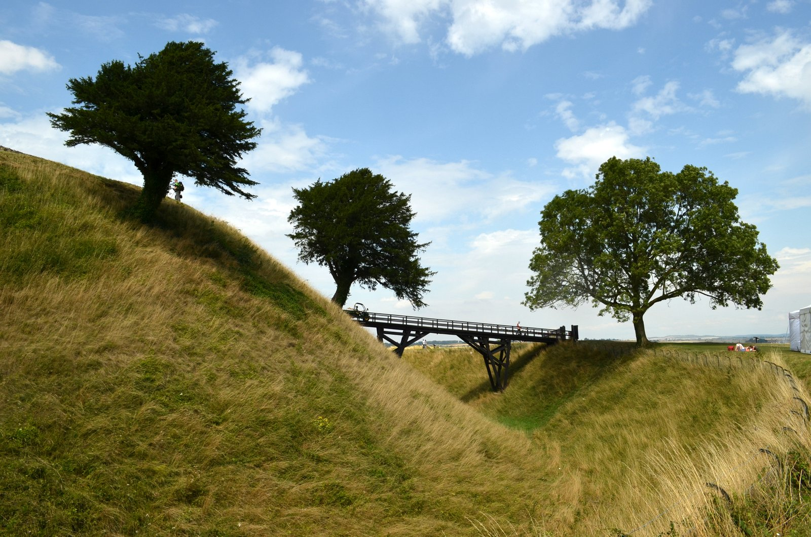 Remains of Old Sarum Castle and Cathedral